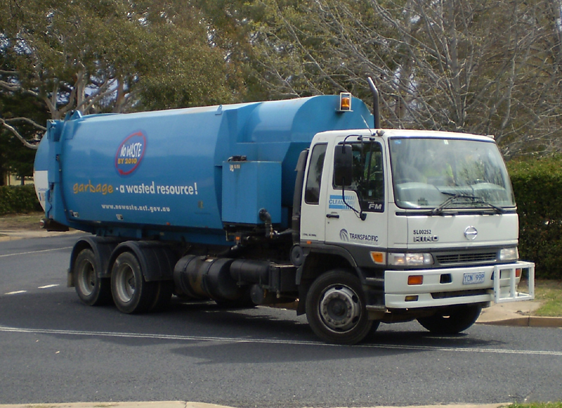 Hino Automated Side Loader garbage truck in Canberra ACT